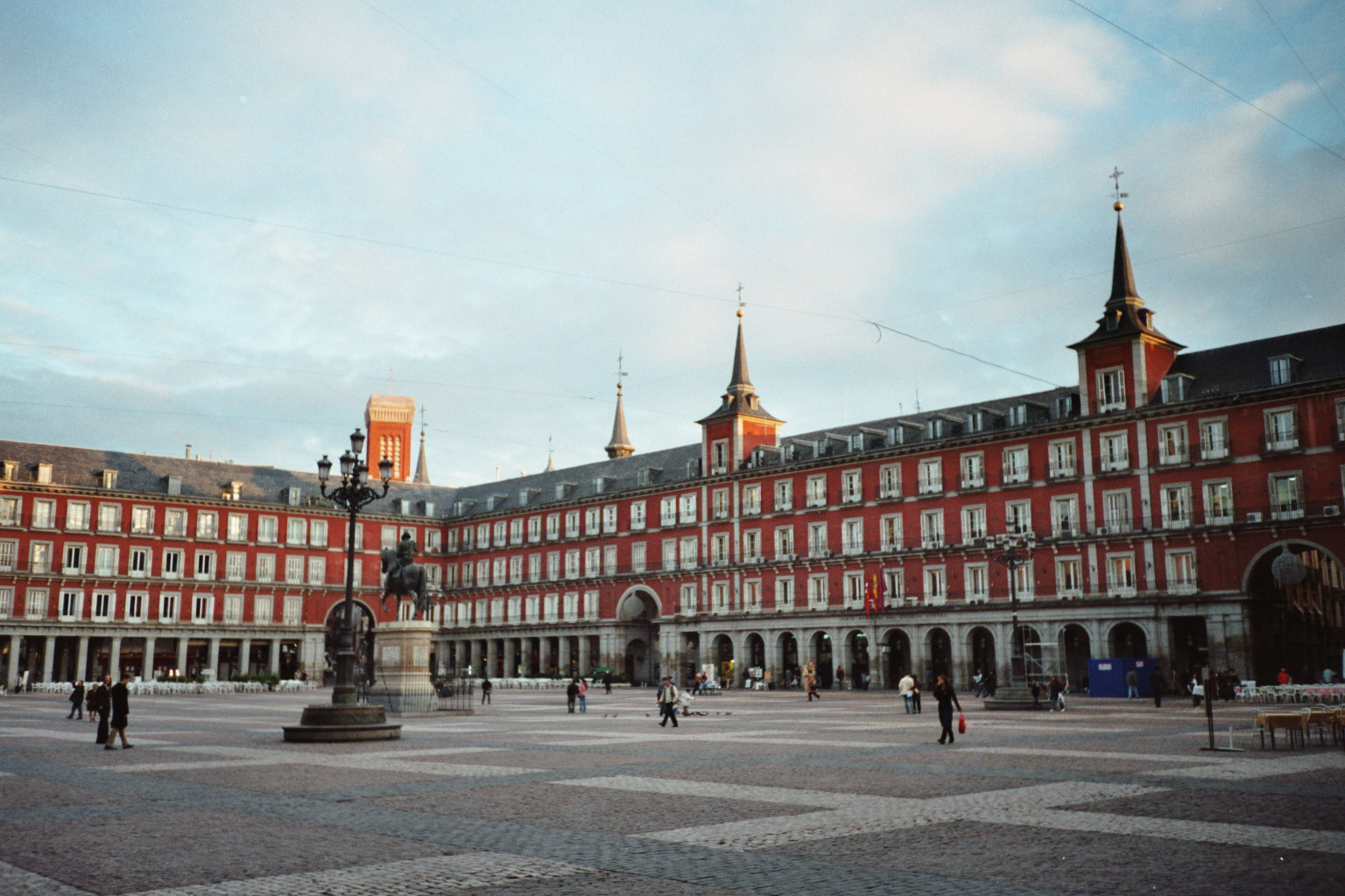 Description: Plaza Mayor (square) in Madrid (Spain). Source: Self-made, I release it into the public domain.